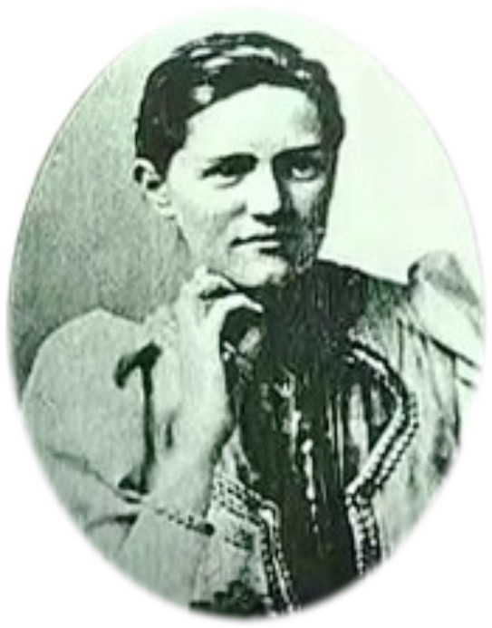 Photograph of Miss Elizabeth Bellerby (Founder of Hillwood Girls' College Kandy)